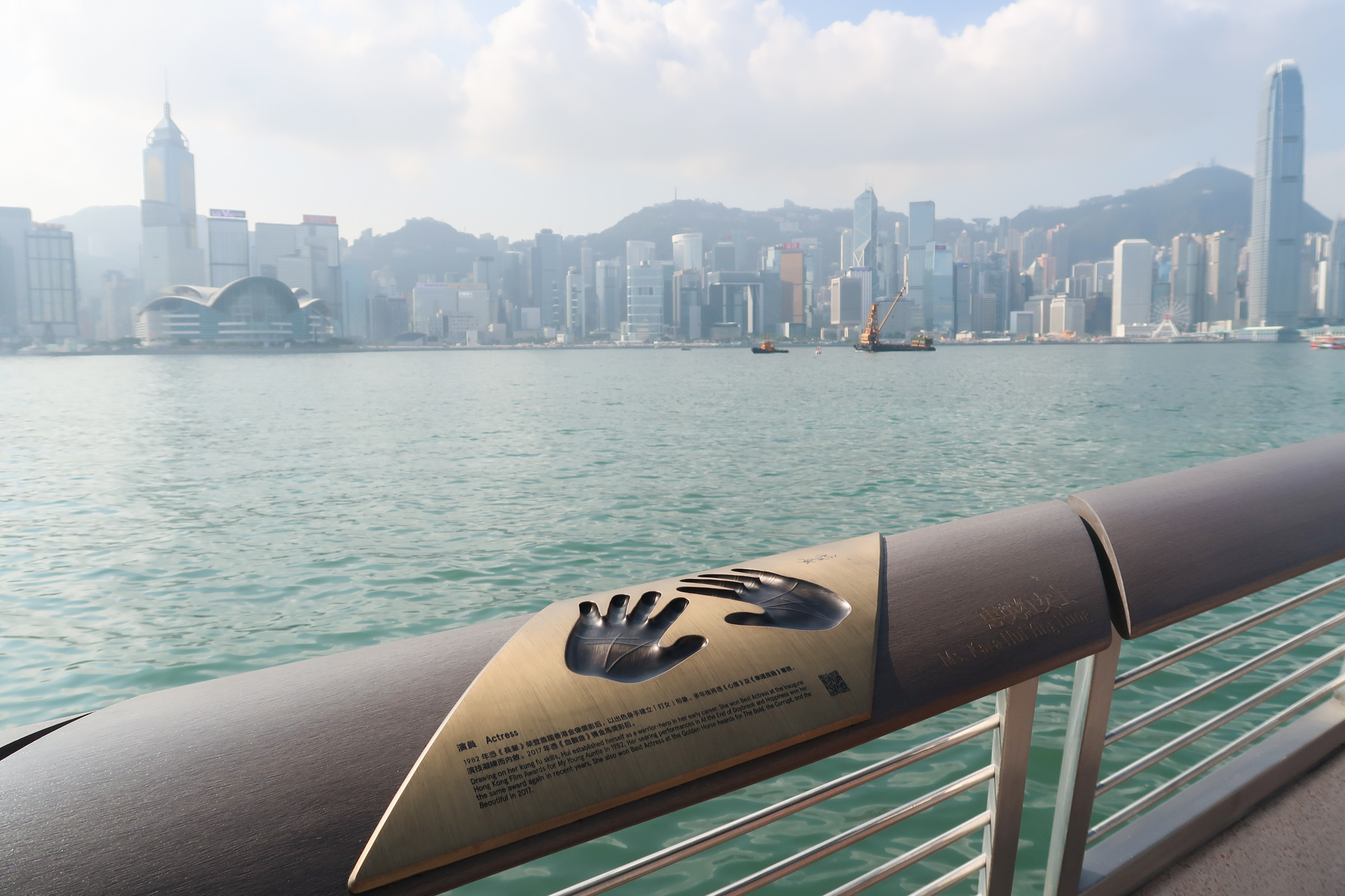 Stars on Avenue of Stars after renovation